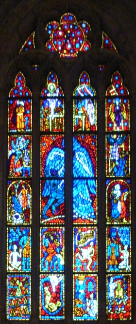 Skara, cathedral, view from south-west